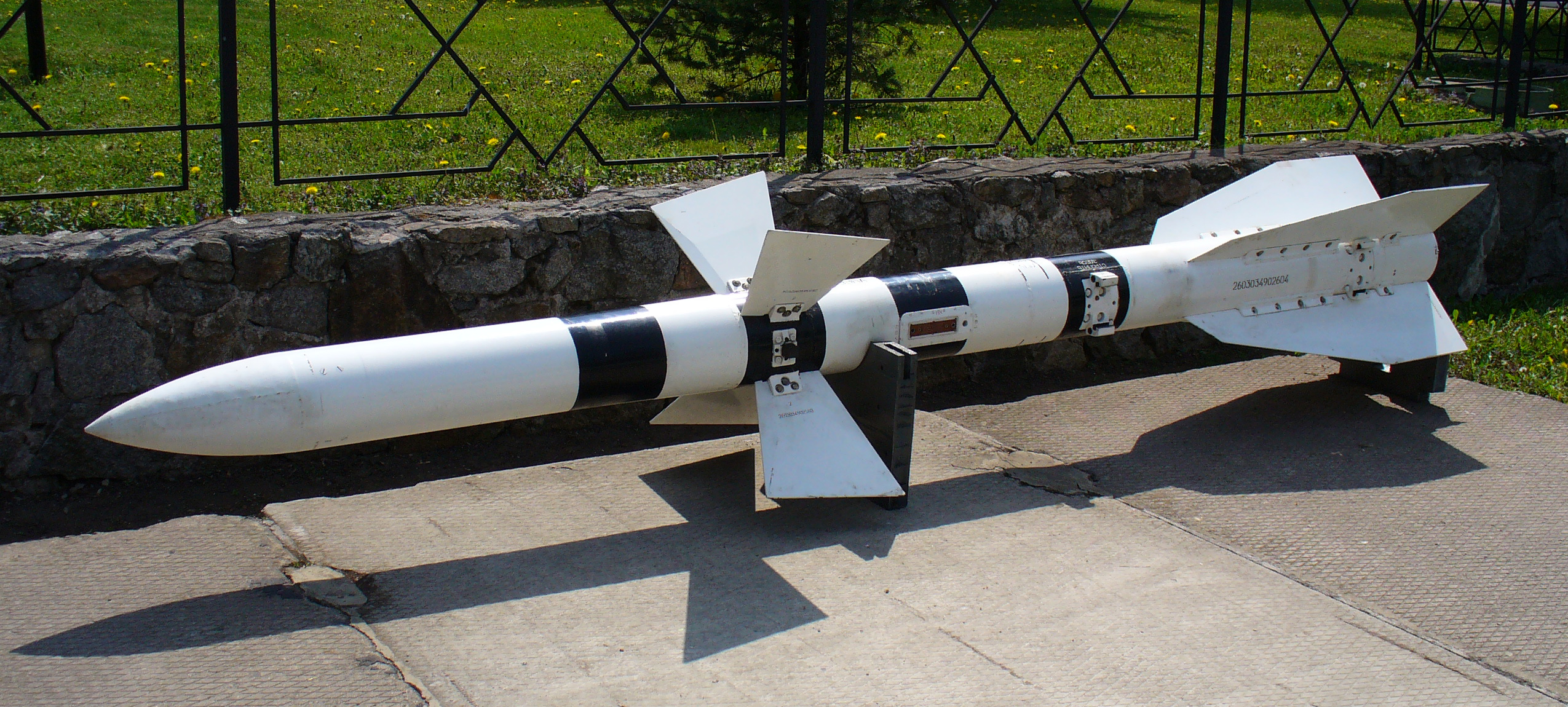 Missile R-27R. Ukrainian Air Force Museum in Vinnitsa.